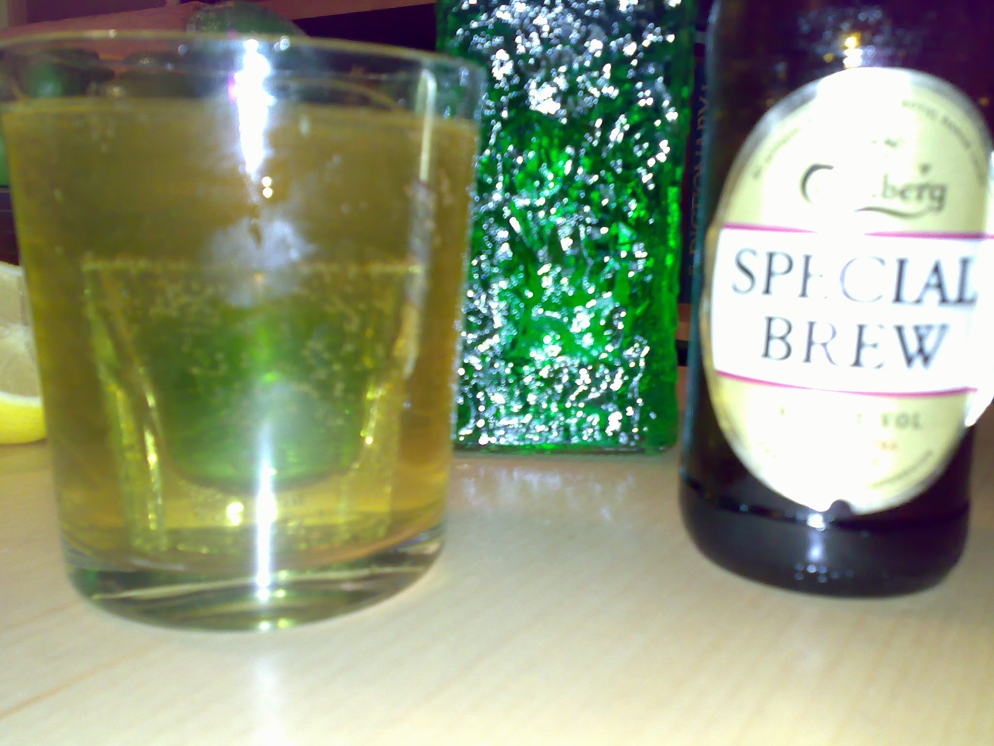 Mountain dew depth charge part two: "Top up your lemonade with your lager leaving enough room to drop your Midori shot into the glass. If you do it right you will have a small lager shandy with a shot glass sunk in it (depth charge ;) ), if you do it wrong you'll have a weird messy drink. You have to drink the whole glass in one and it will become more melony as you drink it. Tastes like Mountain Dew and since you can no longer get Mountain Dew in thUK you have a perfect excuse to drink this much improved version. Your lager doesn't have to be Special Brew but it help's immensely if it's strong as the Midori is really weak. Only took these pics as I wanted to try out my new Nokia N73 with its 'Send to Flickr' facility." (N70)